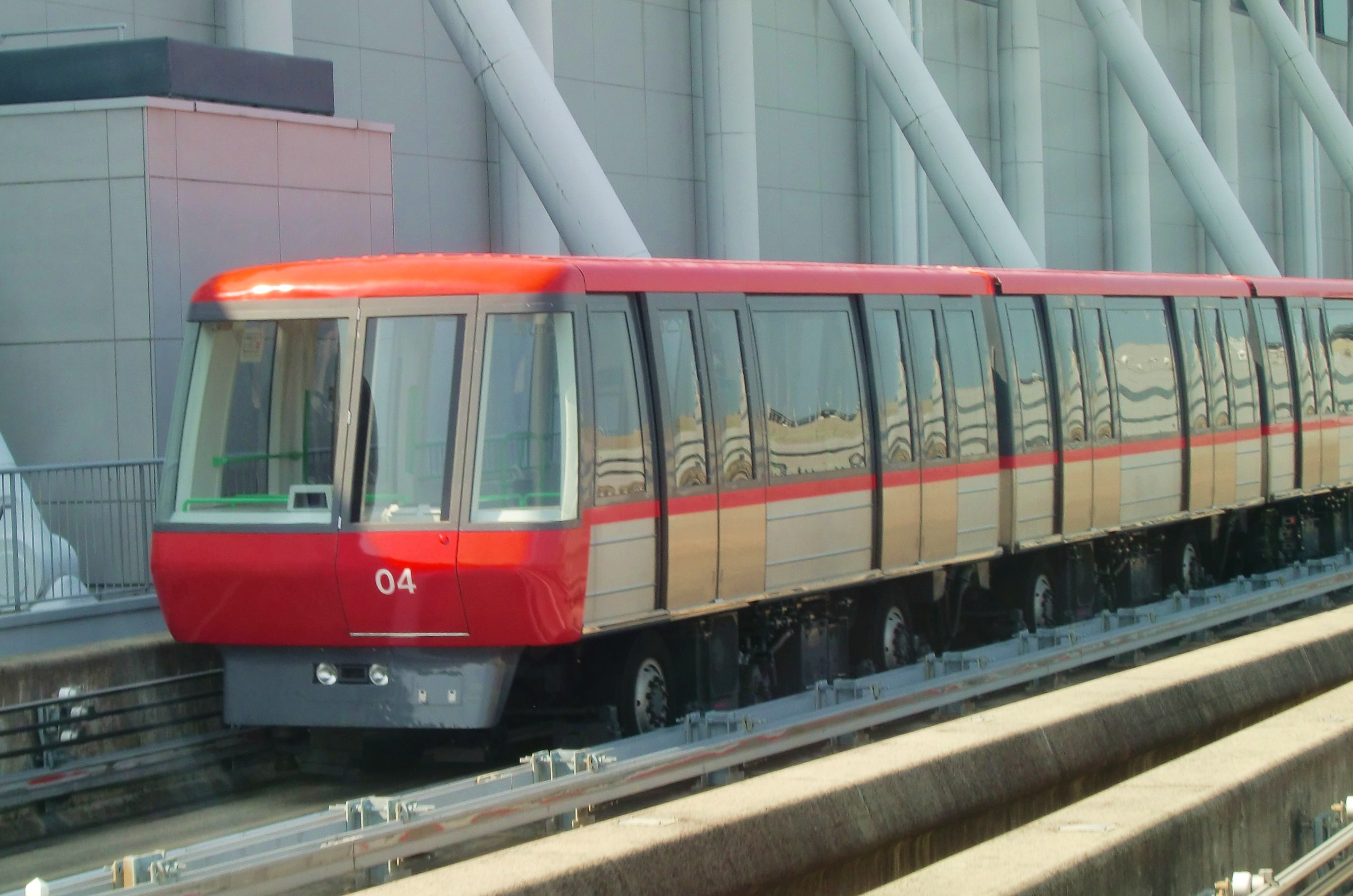 Wing Shuttle at the Kansai International Airport